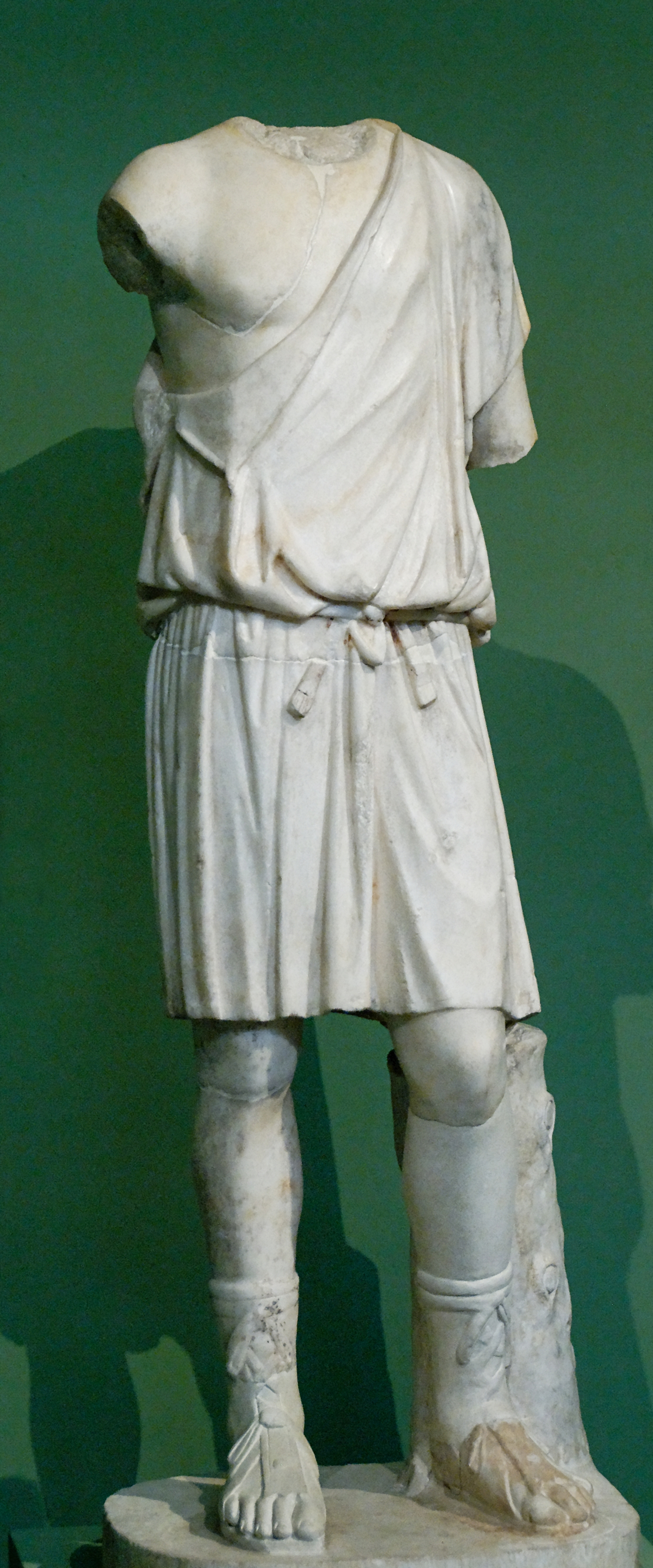 Young man wearing the exomis (tunic). Parian marble, copy after a Greek original of the 4th century BC. From the Horti Lamiani, 1874.